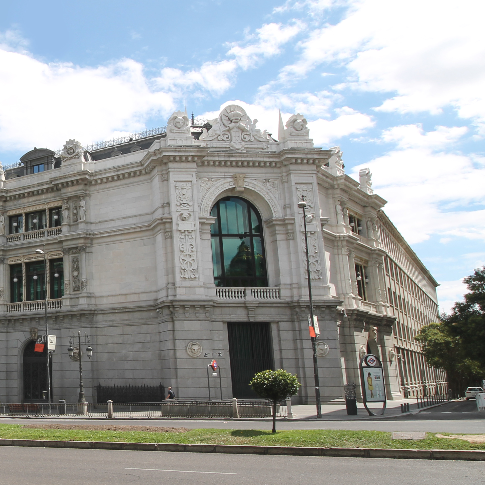 View of the Bank of Spain headquarters (Madrid) from Calle de Alcalá (street).